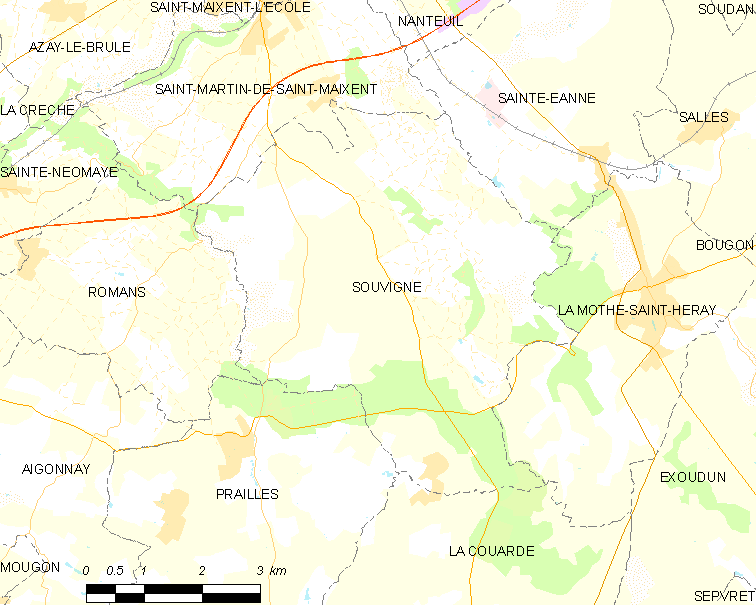 Map of French municipality Souvigné